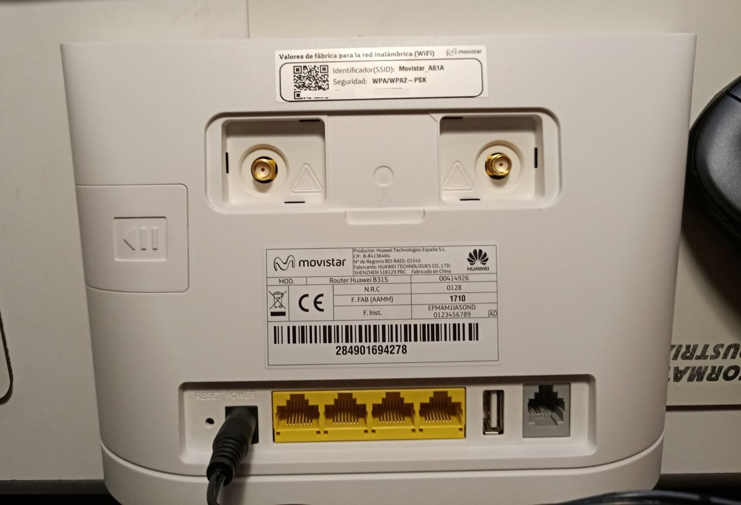 Back view of a Router 4G-LTE